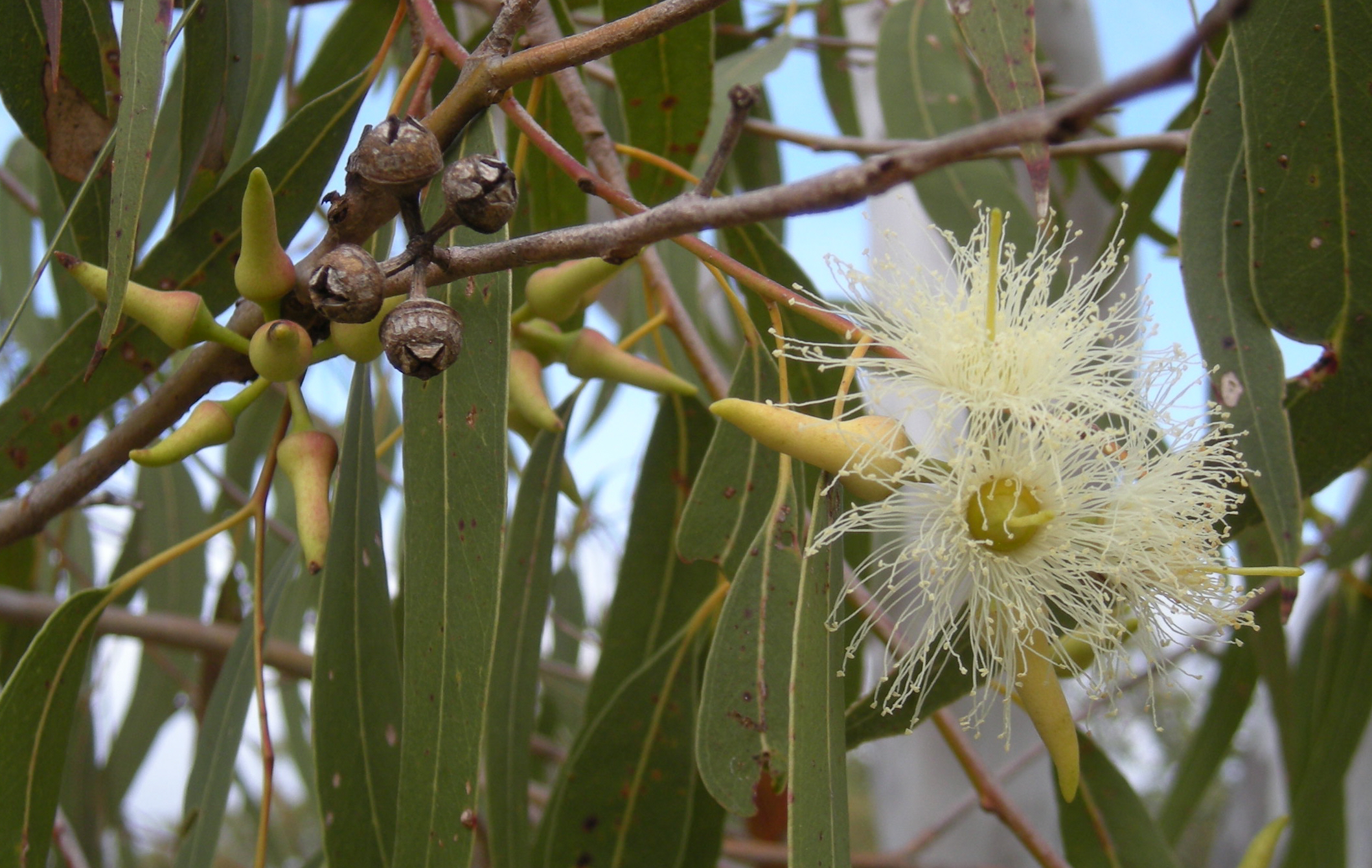 Eucalyptus tereticornis buds, capsules, flowers and foliage, Rockhampton, Queensland.